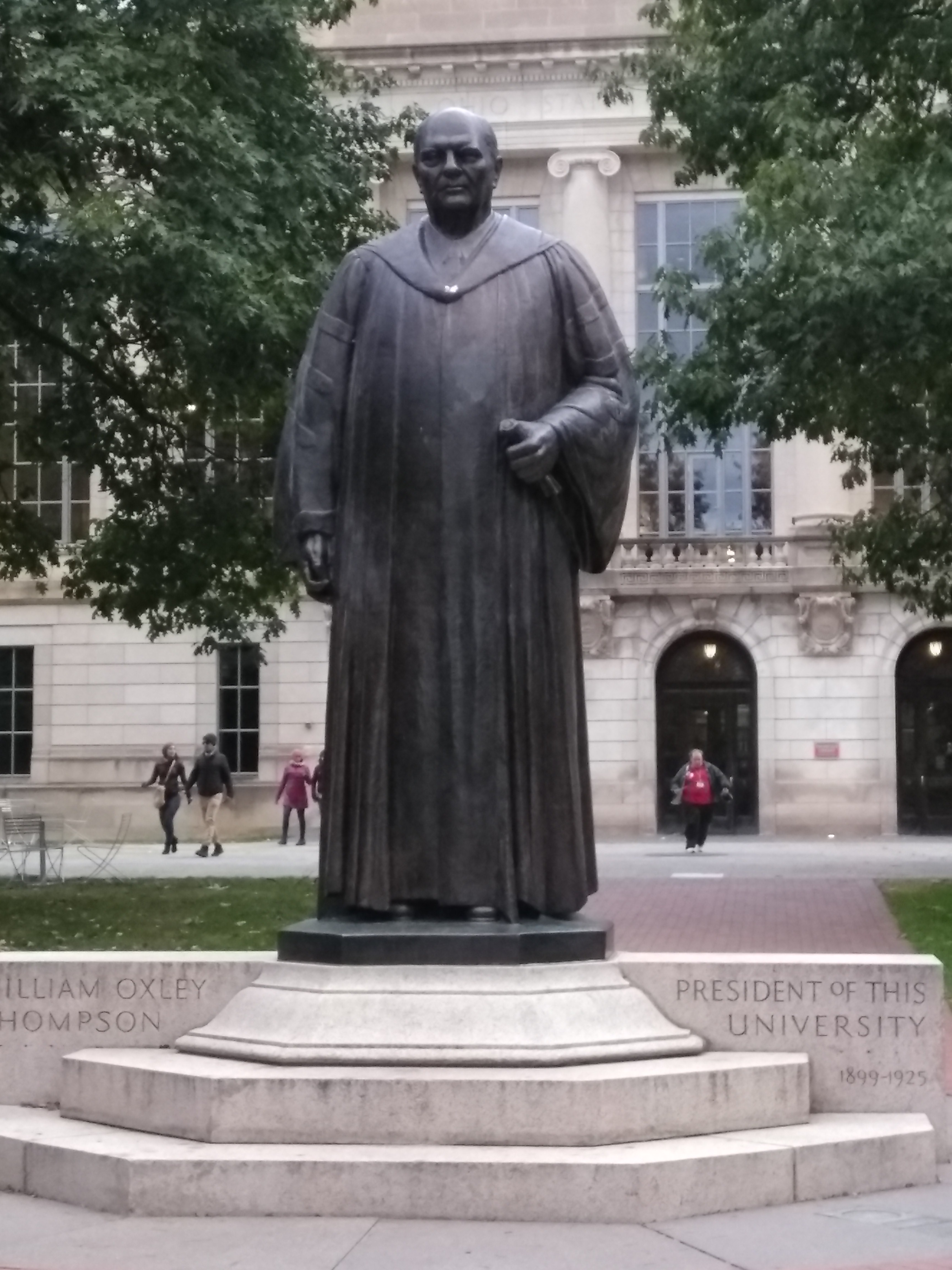 In front of Thompson Library, Columbus State University.